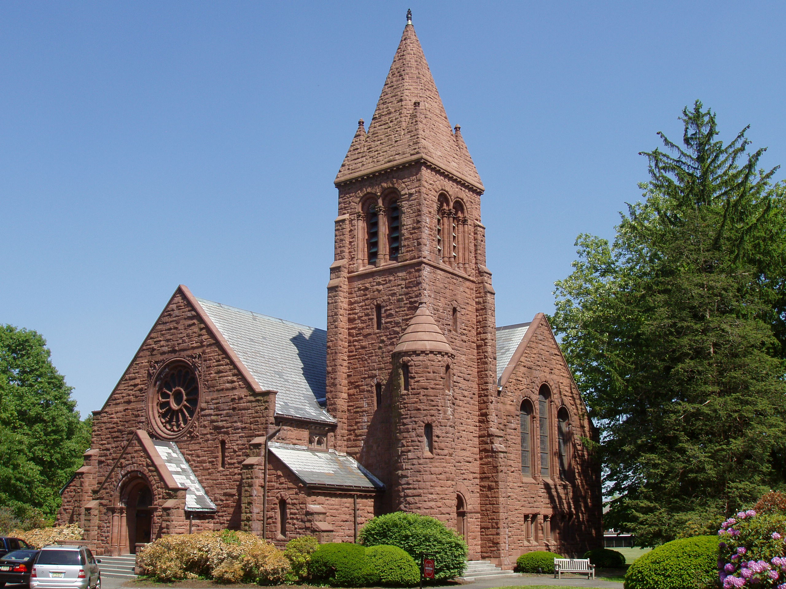 Photograph of Edith Memorial Chapel, Lawrenceville School, Lawrenceville, New Jersey, USA.